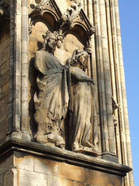 The Cathedral Church of the Blessed Virgin Mary, Lincoln Statuary of King Edward I and Queen Eleanor, on the south east corner.